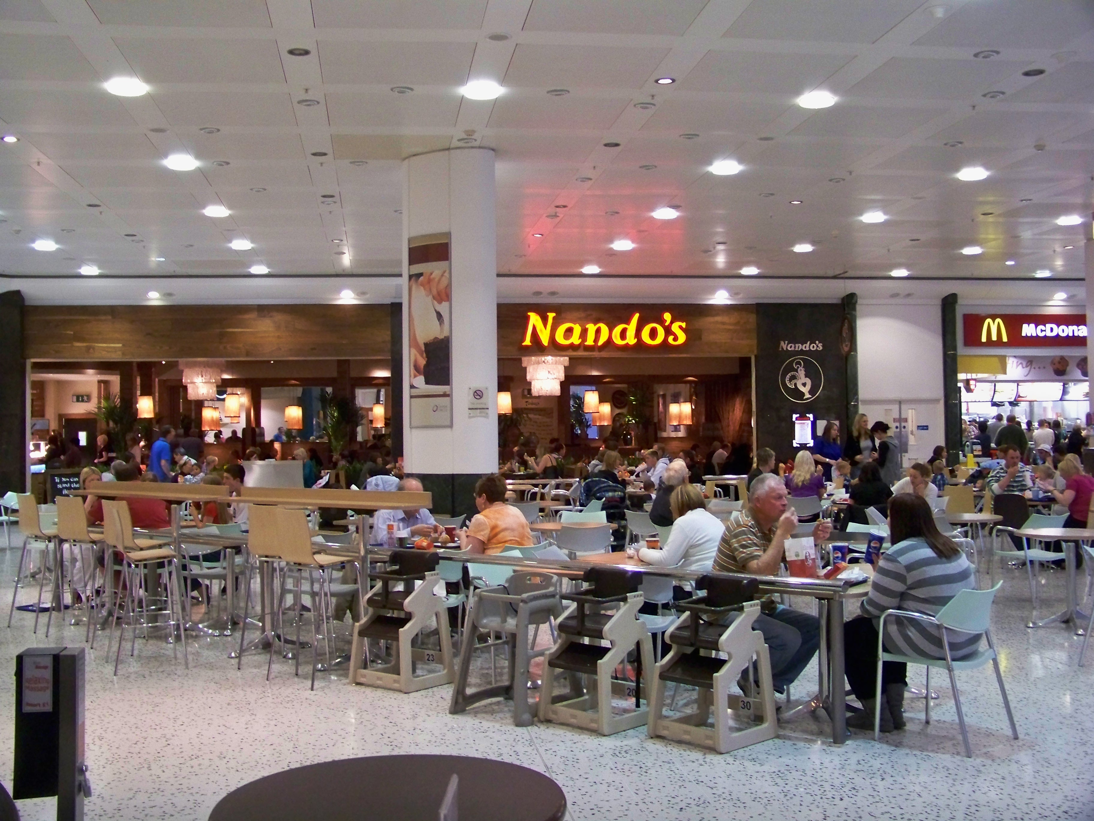 Nandos in the 'Upper Circle' food court at the White Rose Centre in Leeds. Taken on the evening of Thursday 24th September 2009.